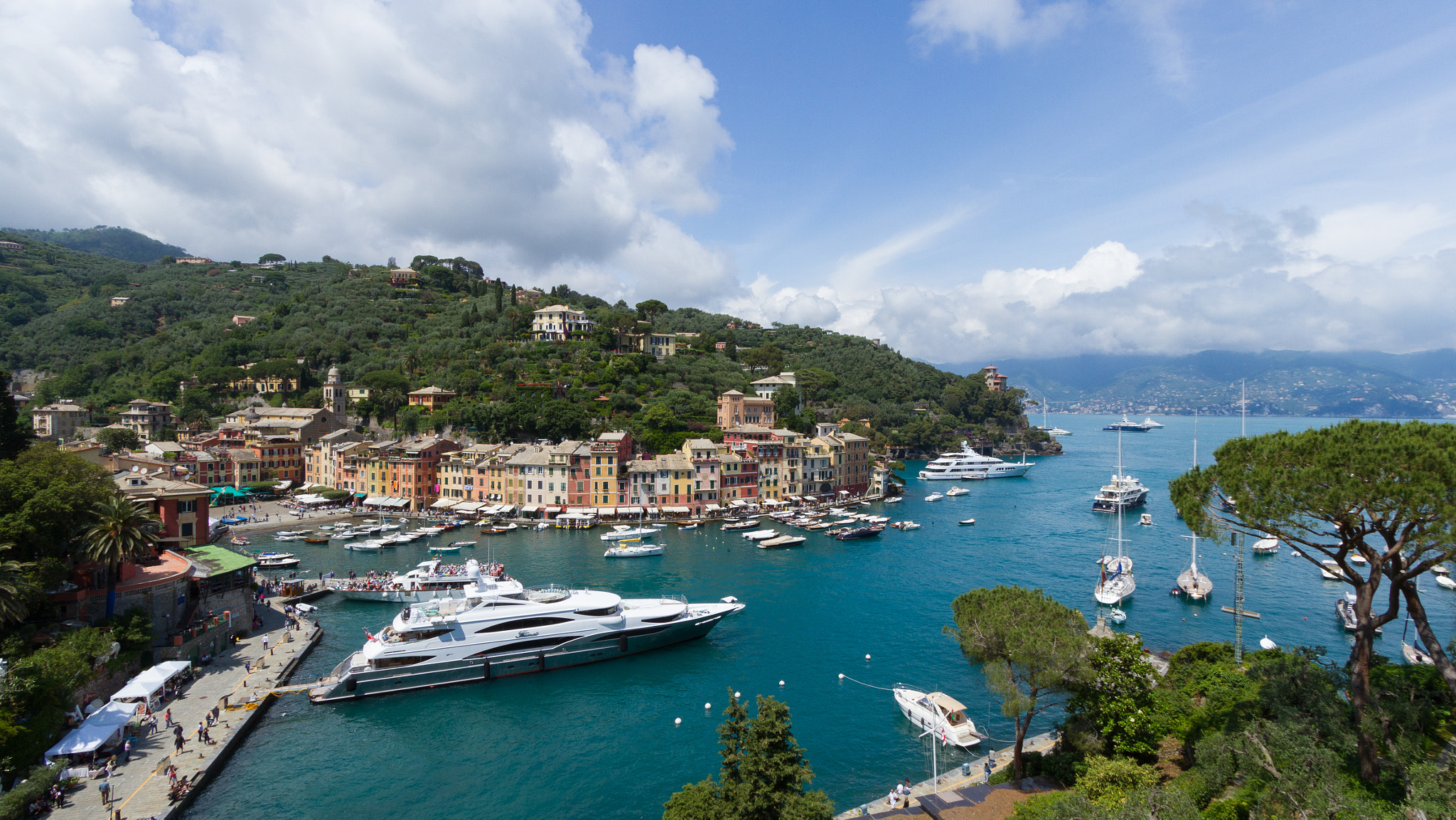 500px provided description: Harbor of Portofino, Italy [#Italy ,#Sky ,#Sea ,#Boats ,#Clouds ,#Portofino ,#Harbor]